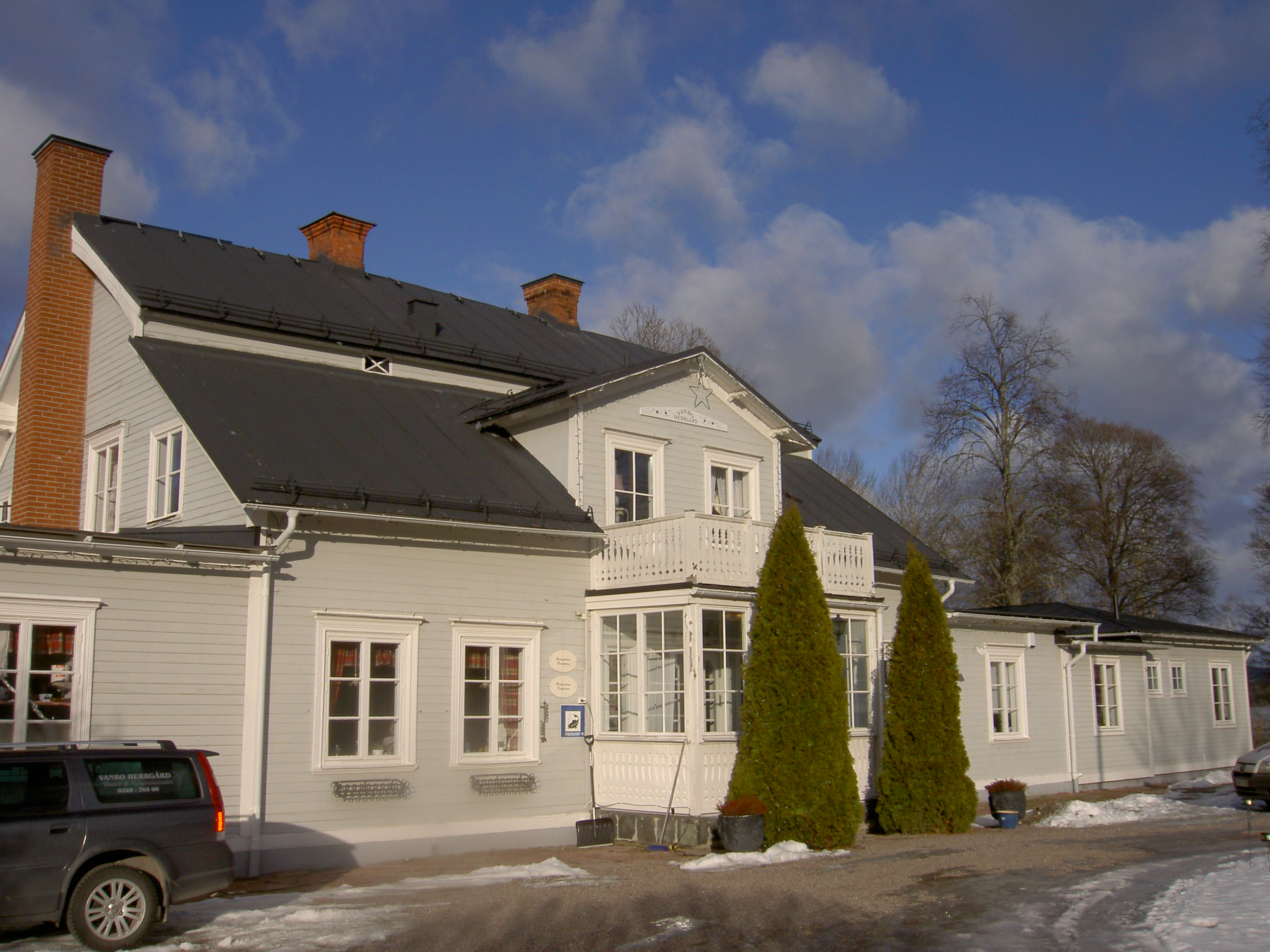 Vanbo mansion, ouside Smedjebacken, Sweden